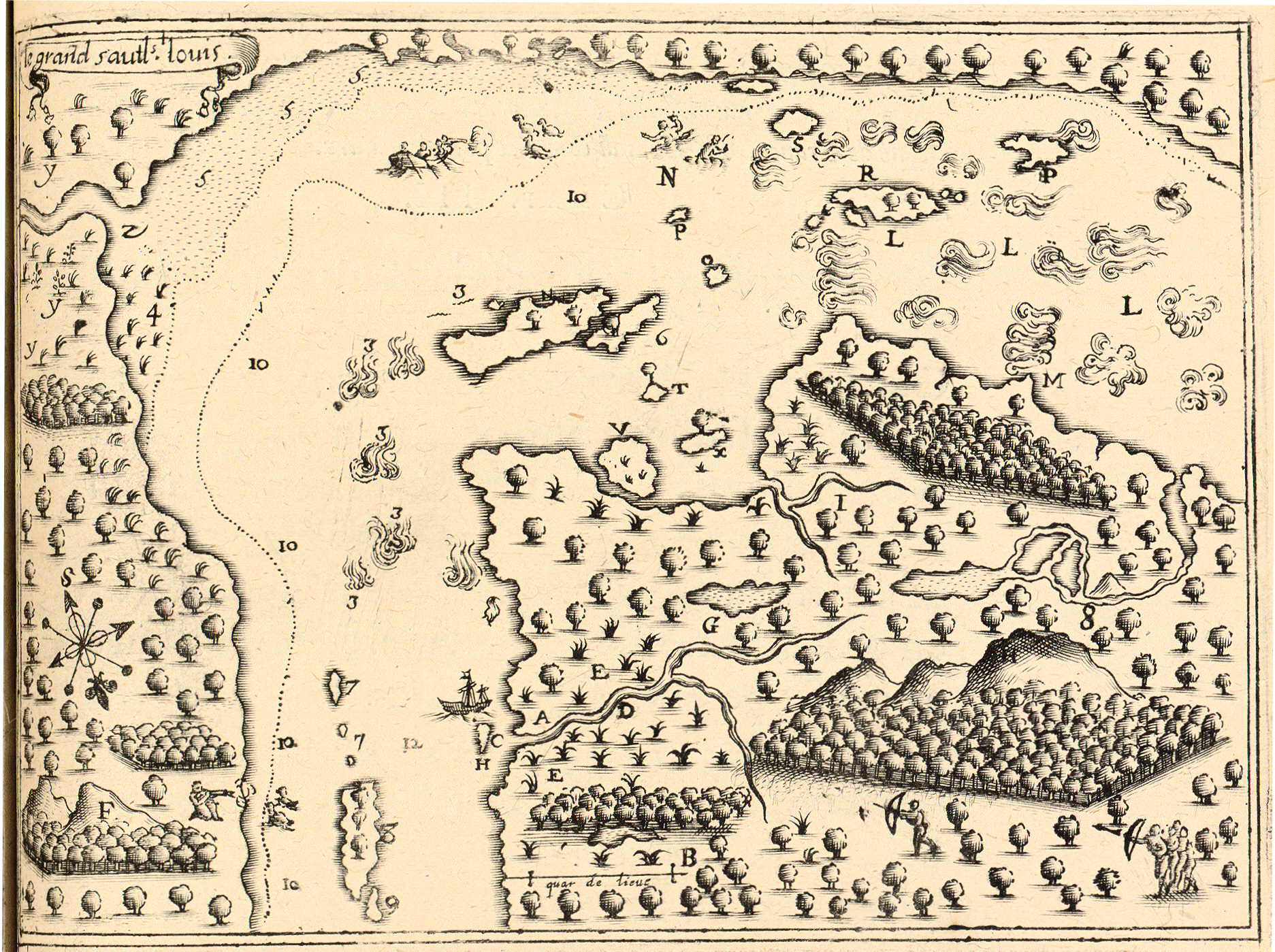 Montréal and the Lachine Rapids, May 1611. Le grand sault st Louis.